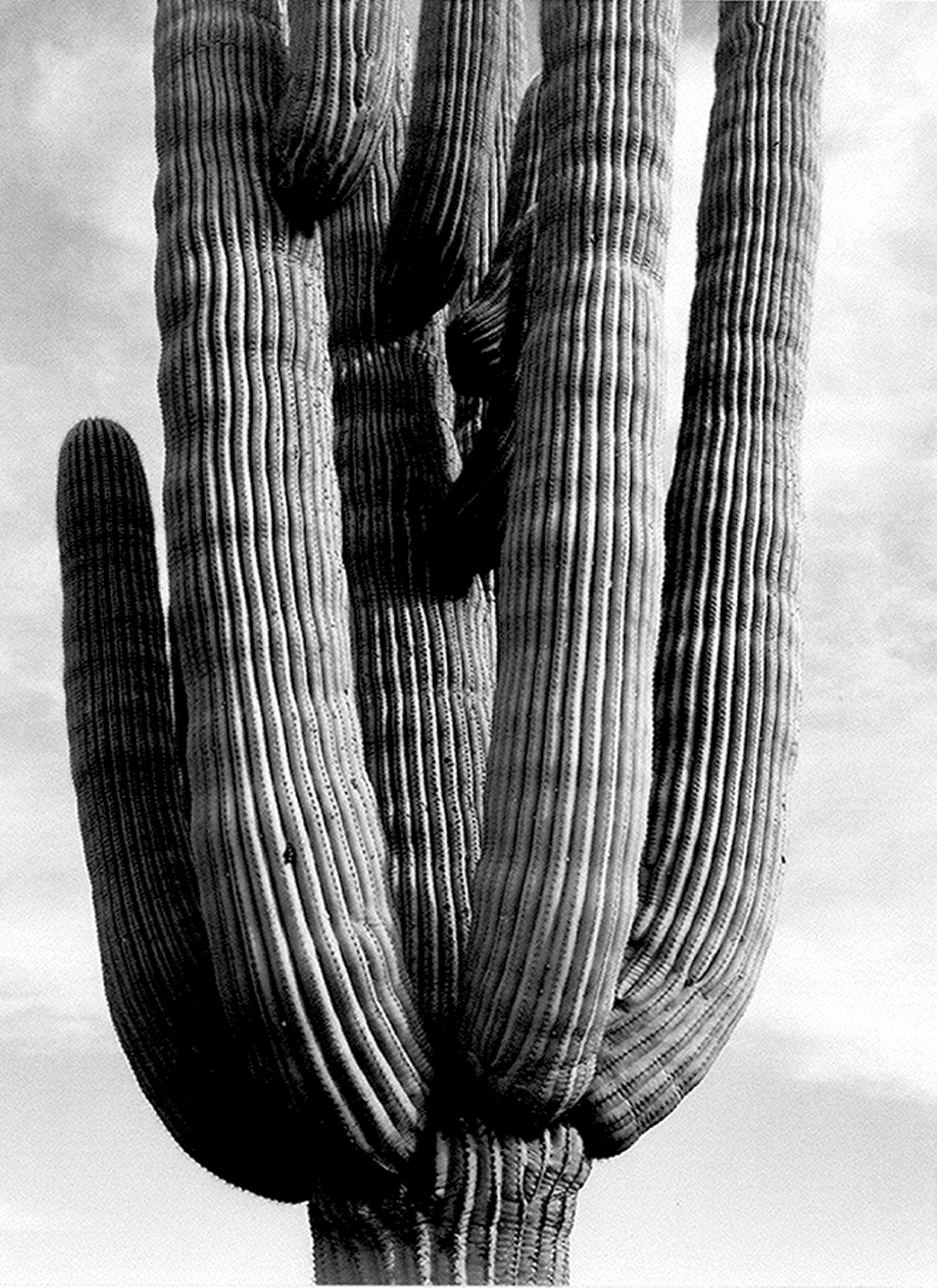 79-AAN-4 "Saguaros," vertical, detail of cactus. Saguaro cactus National Park 1941, Ansel Adams -May need an ultra high resolution scan to do justice to this print -Mak 05:40, 4 April 2006 (UTC)